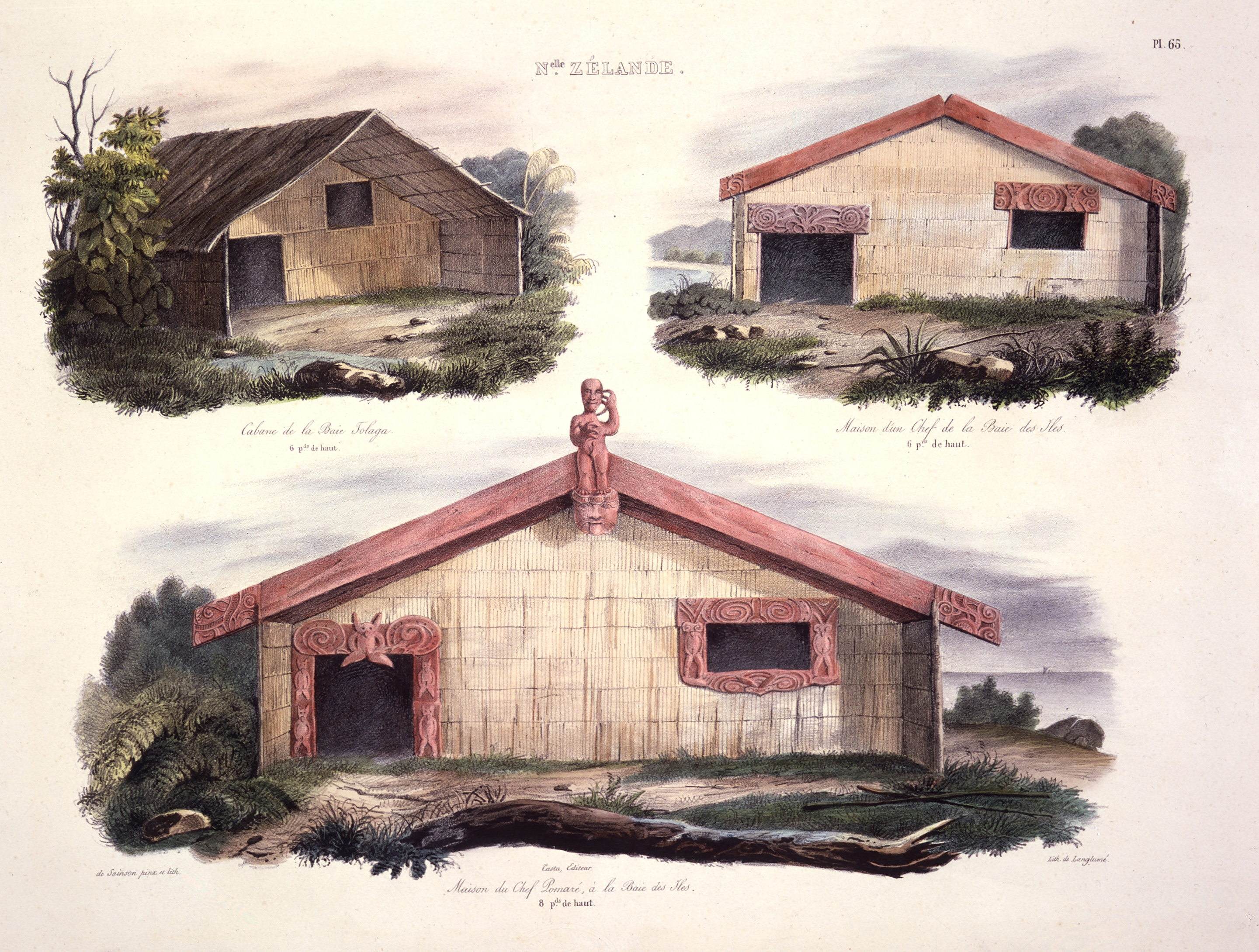 Shows, in three separate vignettes, examples of 3 types of Māori dwelling, the first (top left) in Tolaga Bay, the others in the Bay of Islands. The second and third are looking straight on to the front, the first looking at an angle to the front. The second and third dwellings display carvings. Drawn by crew of the Astrolabe, which visited New Zealand in early 1827, the year after the death of Pomare I. Embossed beneath image, with oval stamp: "Voyage de l'Astrolabe / Dumont d'Urville Commandant / J. T. Inscriptions: Inscribed - Recto - above image: Nelle. Zelande.; Recto - top right: Pl. 65; Recto - (below first image) Cabane de la Baie Tolaga./ 6 pds. de haut.; Recto - (below second image) Maison d'un Chef de la Baie des Iles. / 6 pds. de haut.; Recto - beneath image: Tastu, Editeur. / Maison du Chef Pomare, a la Baie des Iles. / 8 pds. de haut.; Recto - bottom left: de Sainson pinx. et lith.; Recto - bottom right: Lith. de Langlume. Lithograph, hand-coloured 325 x 520 mm.